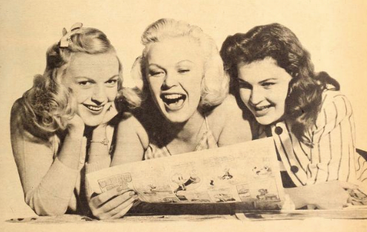 American actress June Haver (1926-2005) centre, with her sisters